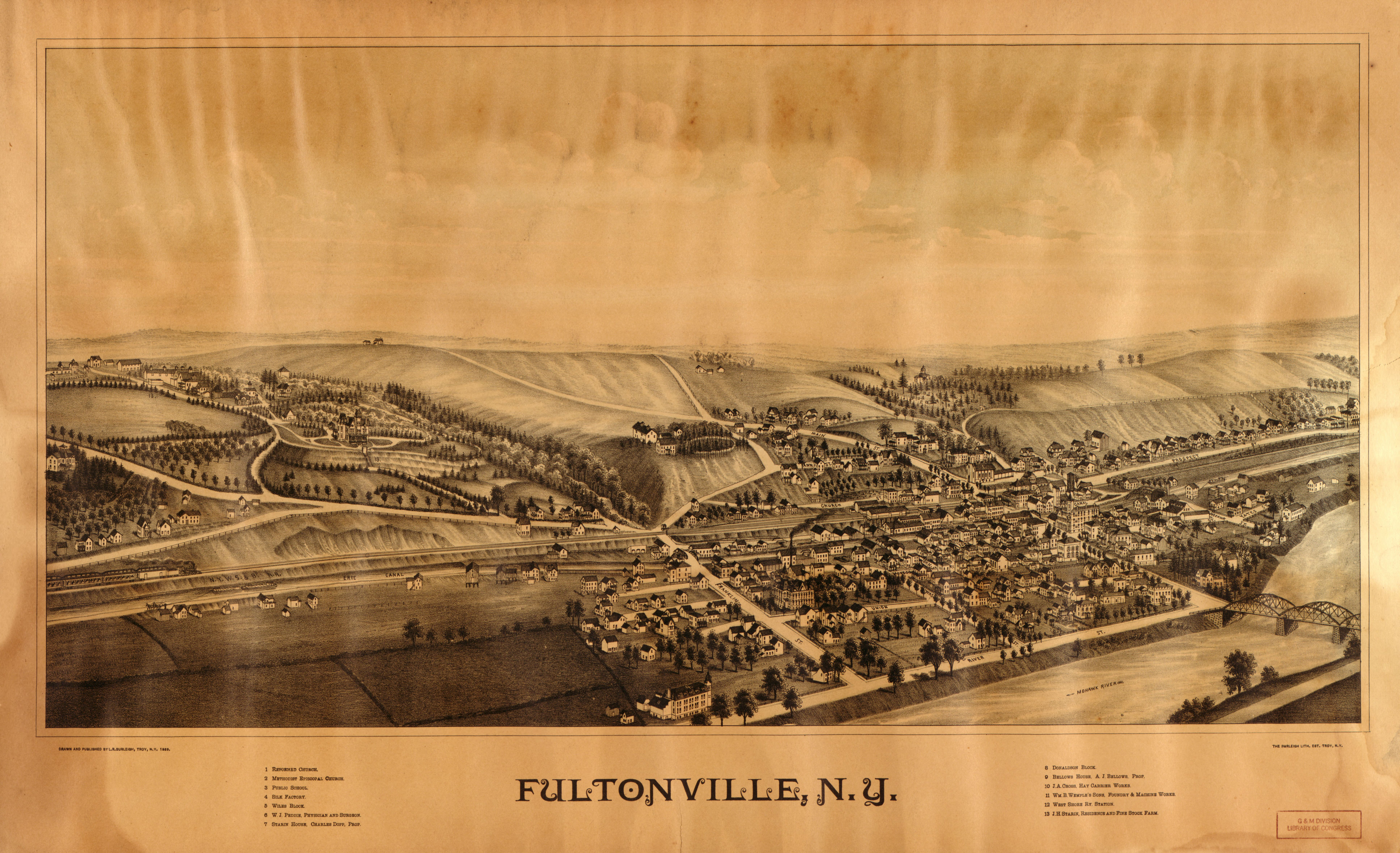 Aerial view. Available also through the Library of Congress Web site as a raster image. LC copy imperfect: Darkened, stained, water-warped. Includes index to points of interest. PM3 Acquisitions control no.: 2007-056